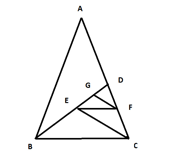 Geometrical diagram of continue proportion